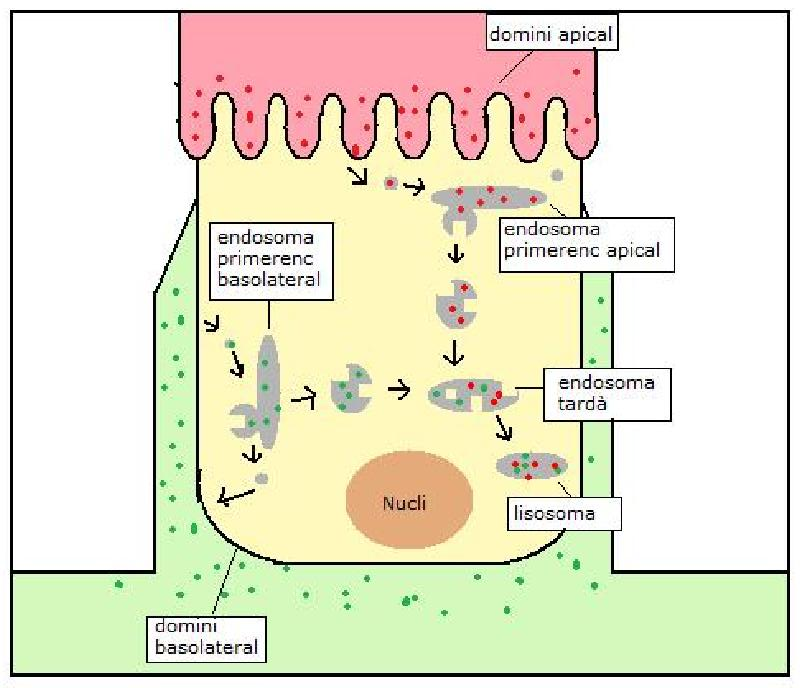 Transcytosis mechanism in epithelial cells